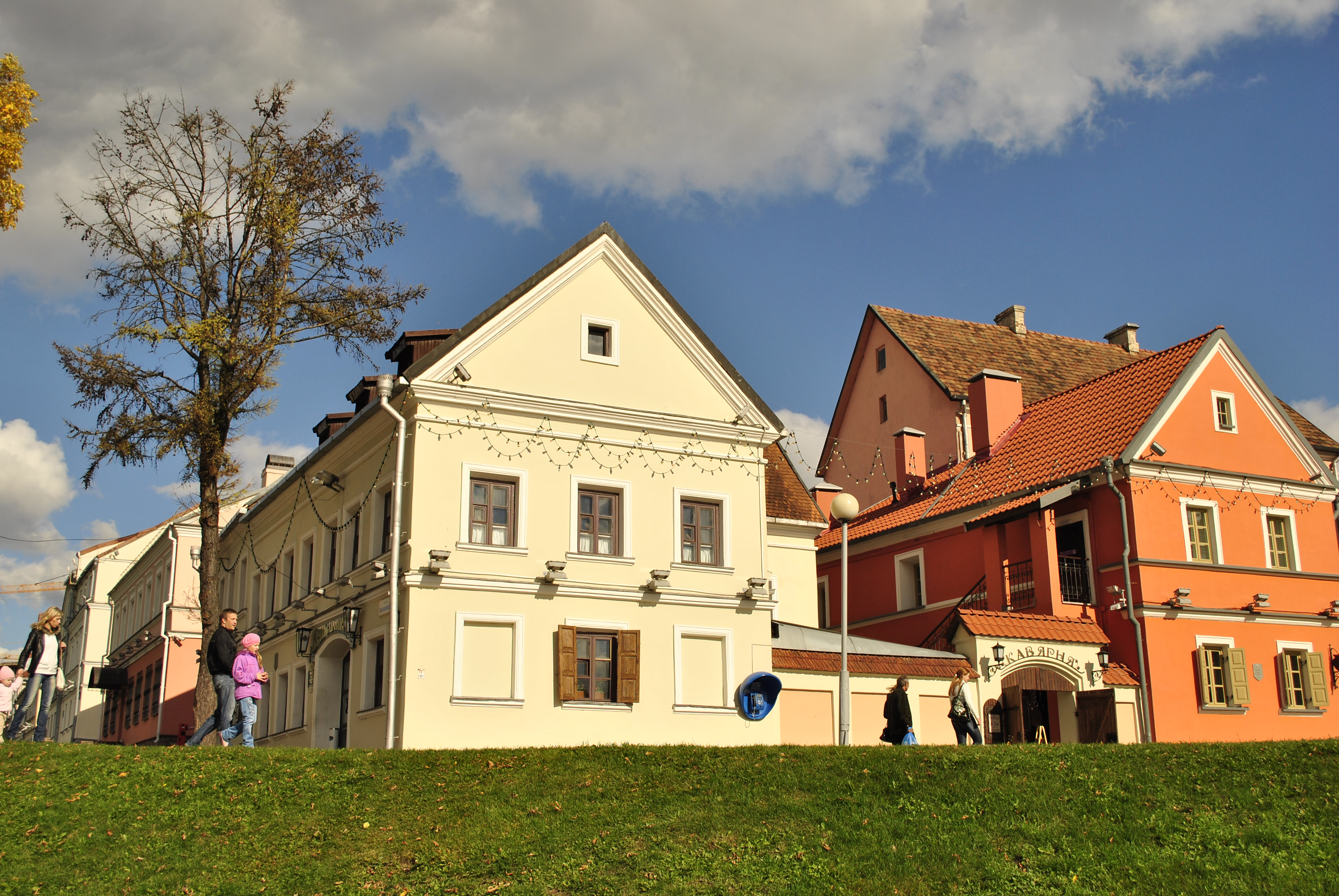 Traetskaye suburb, Minsk, Belarus